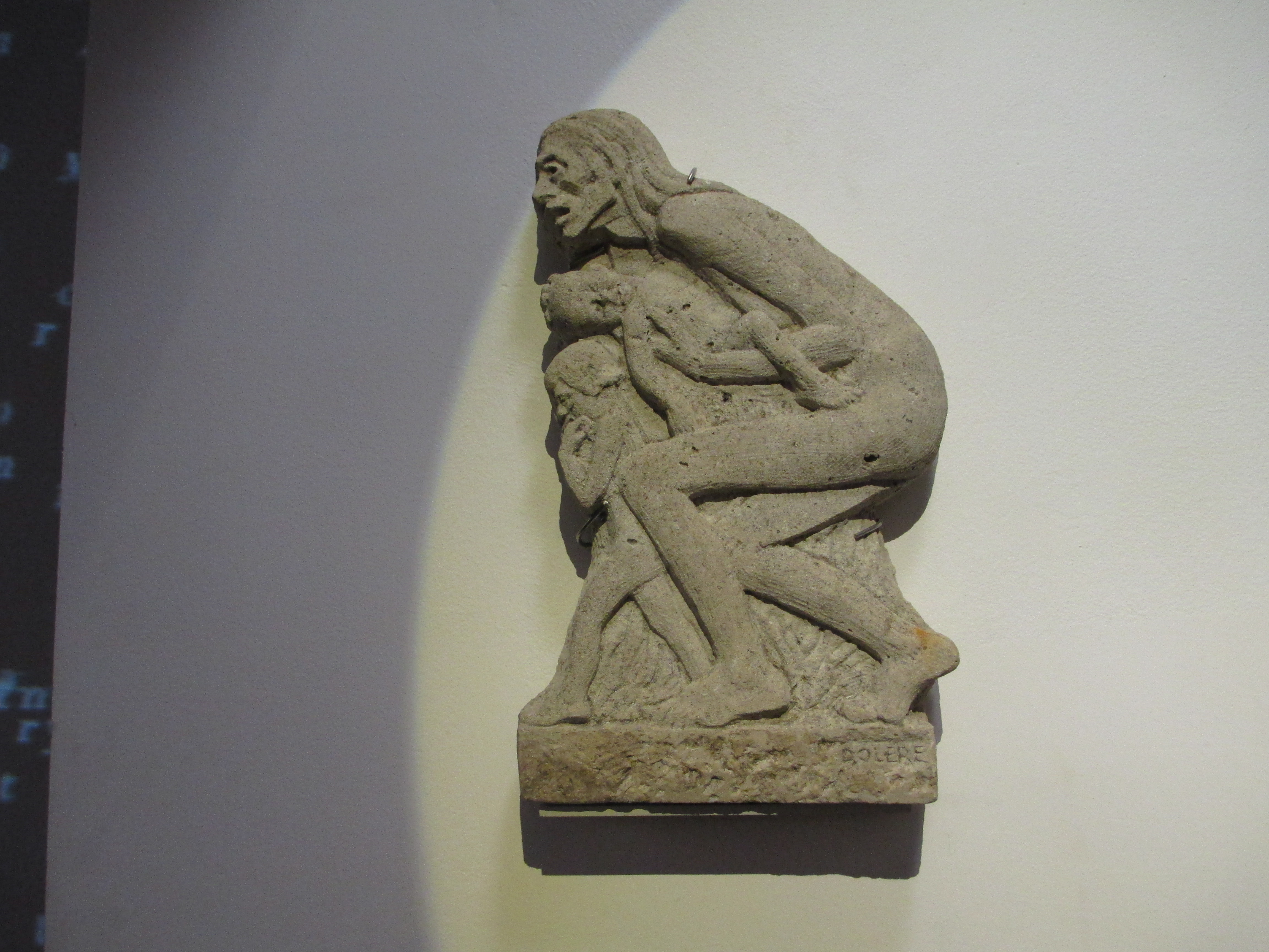 Limestone relief of mother and her children at the threshold of the gas chamber, by David Olere (1902-1985)